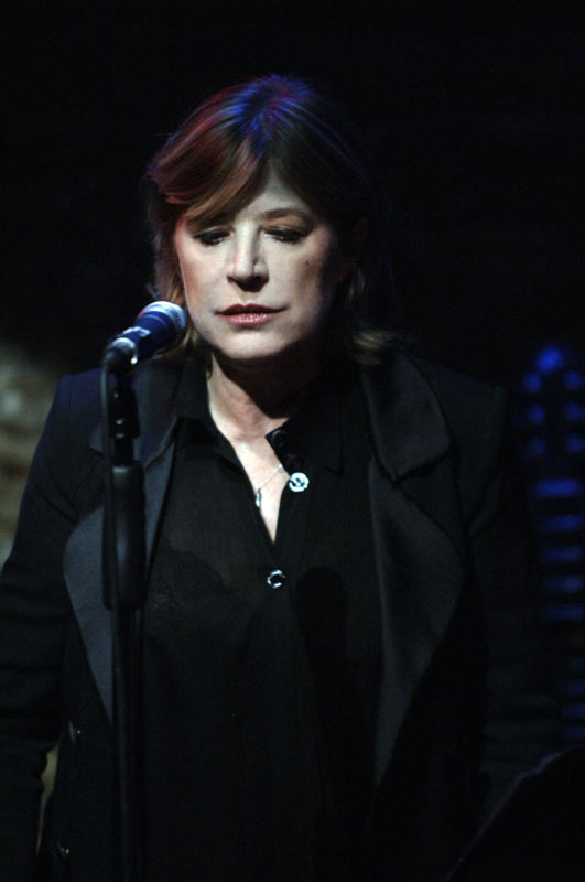 Marianne Faithfull Live in Istanbul